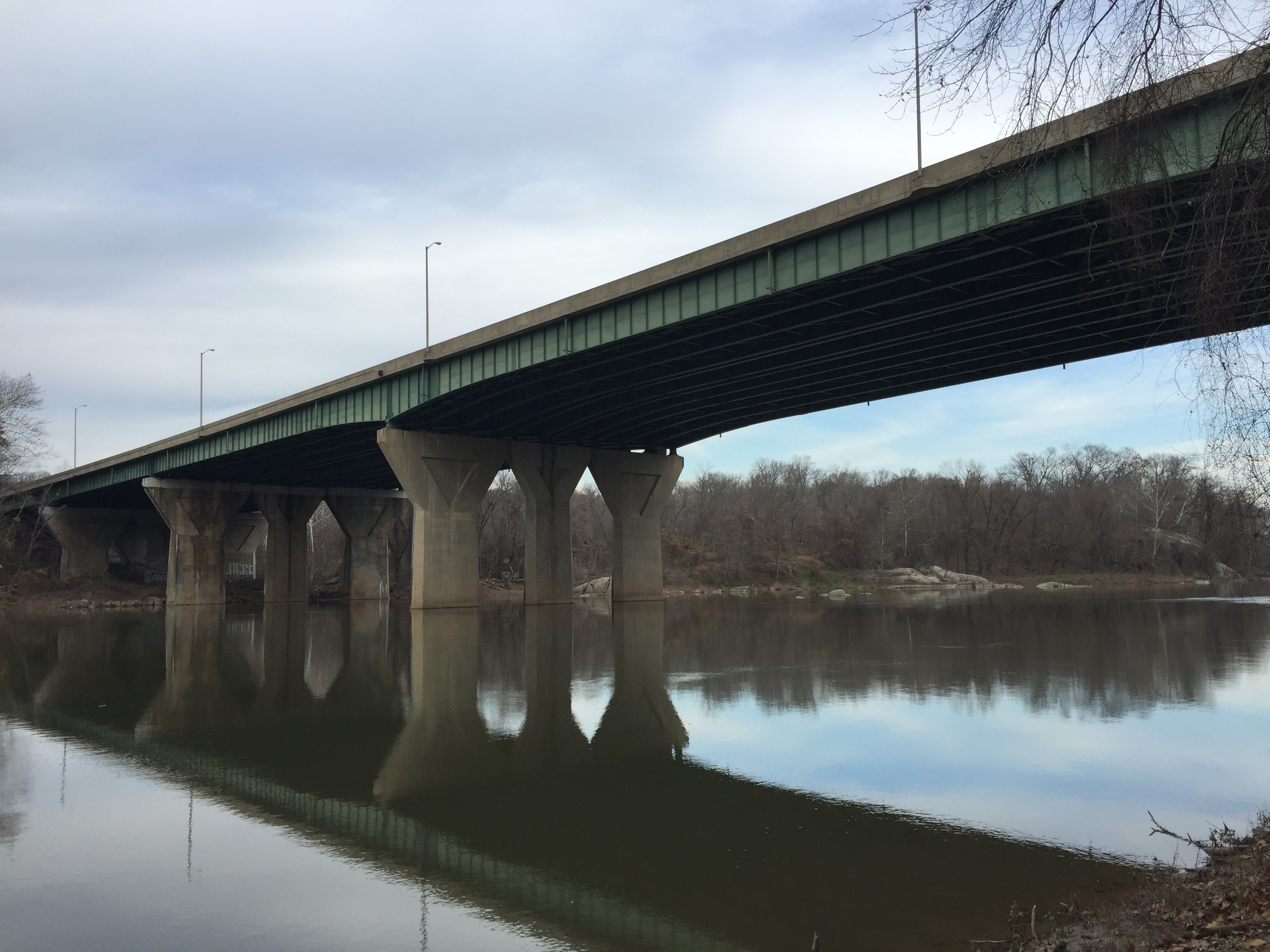 View northeast towards the American Legion Memorial Bridge (Interstate 495) connecting Montgomery County, Maryland and Fairfax County, Virginia from the south bank of the Potomac River